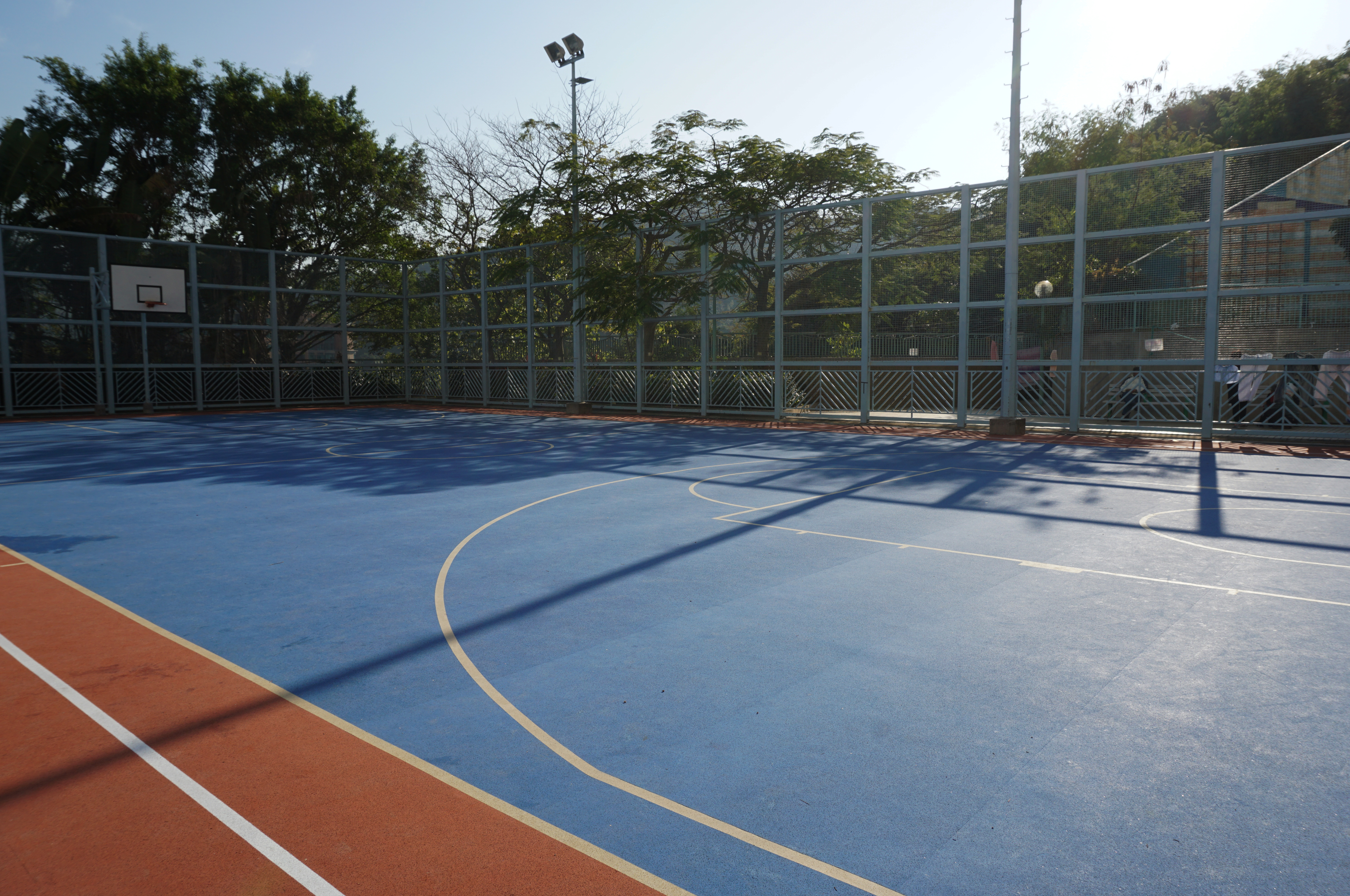 Cheung Wang Estate in Tsing Yi, Hong Kong.